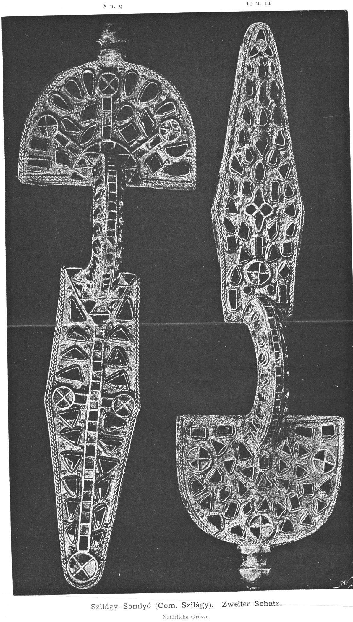 SzS tr